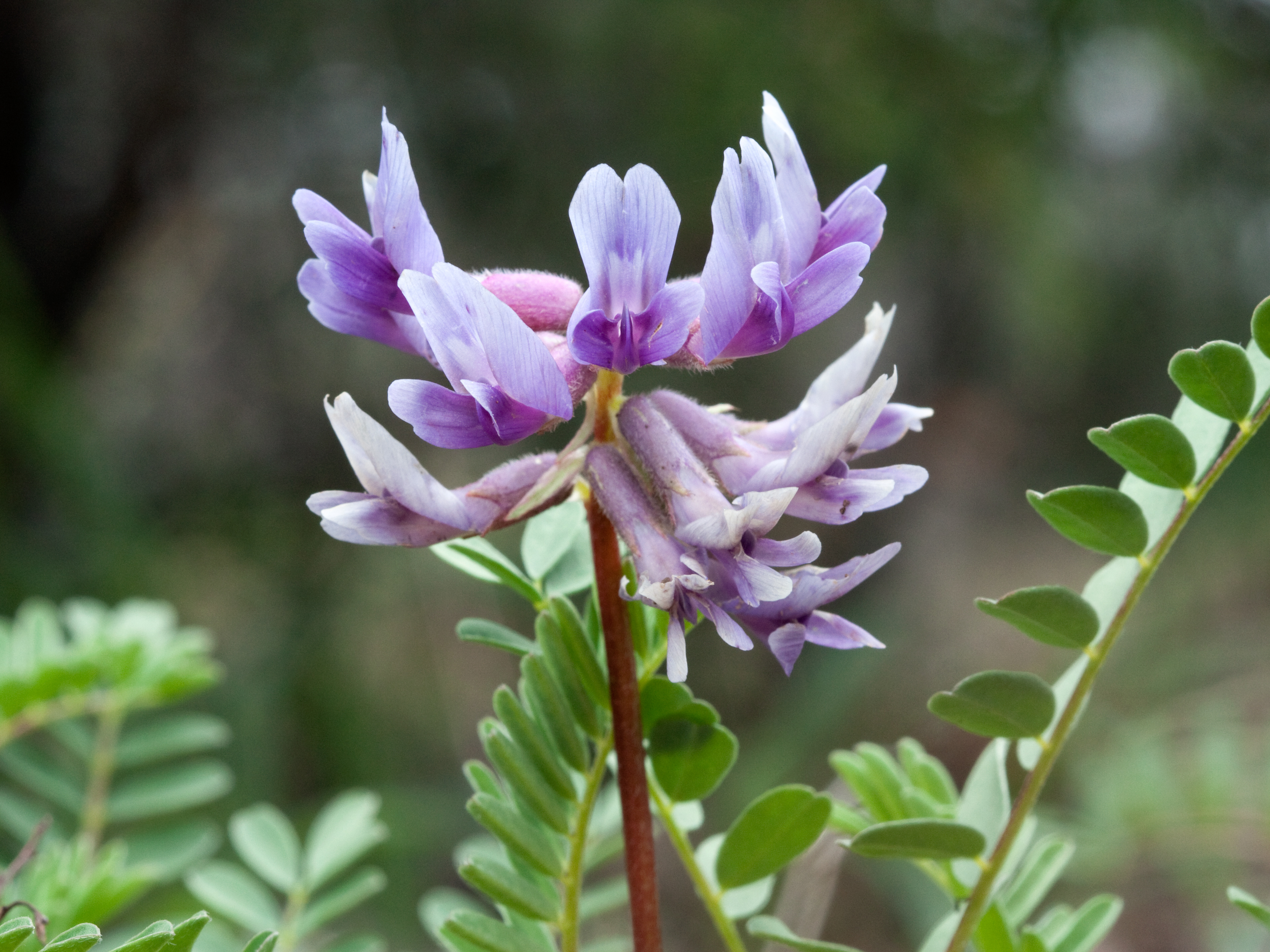 Pyne's Ground Plum (Astragalus bibullatus) in Rutherford County, Tennessee